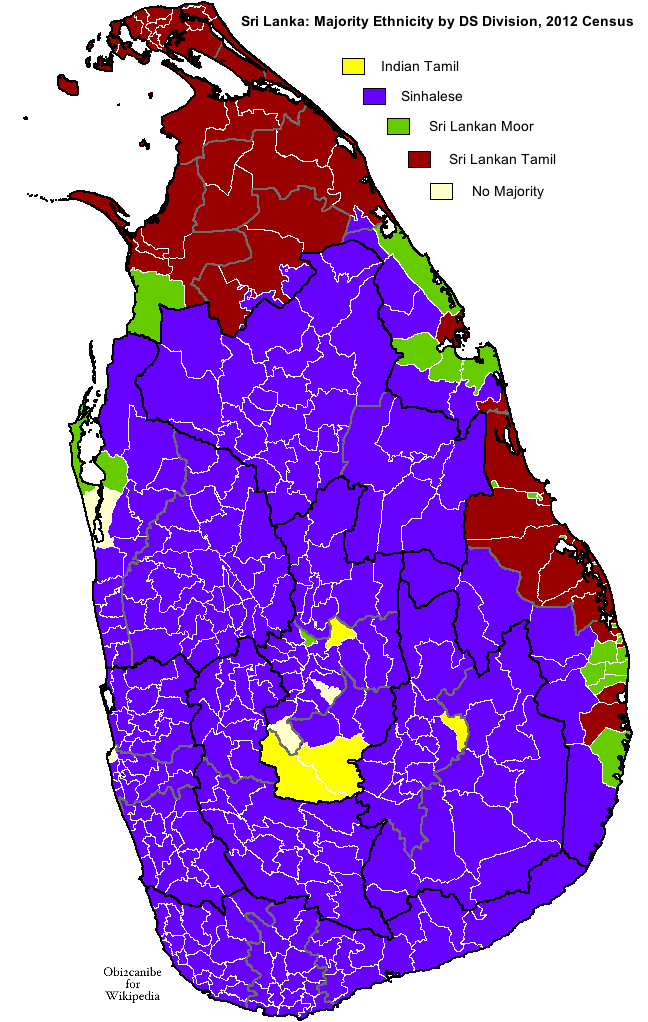 Map of Sri Lanka showing majority ethnicity by DS Division according 2012 census.